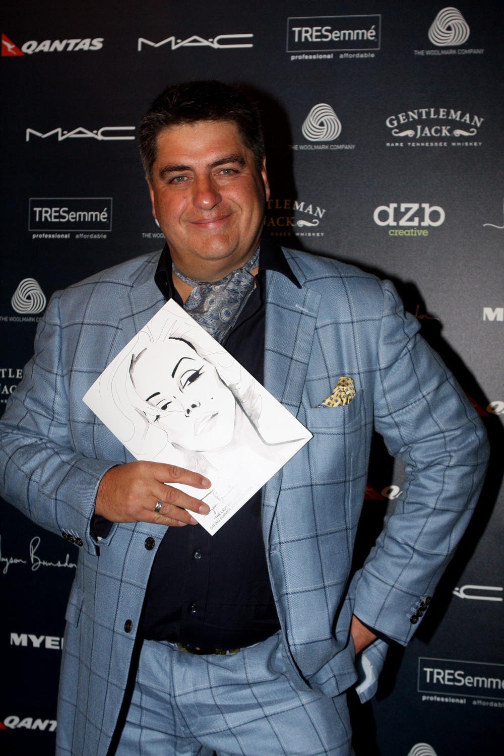 Matt Preston at Mercedes Benz Fashion week Australia, Spring Summer 2012/2013 at the Overseas Passenger Terminal